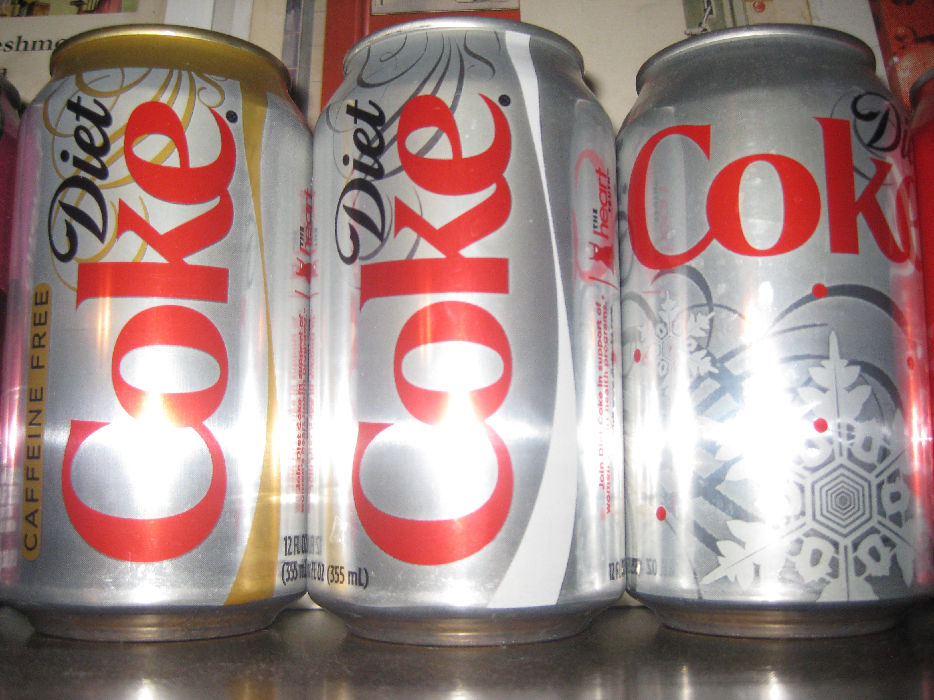 Diet Coke Products